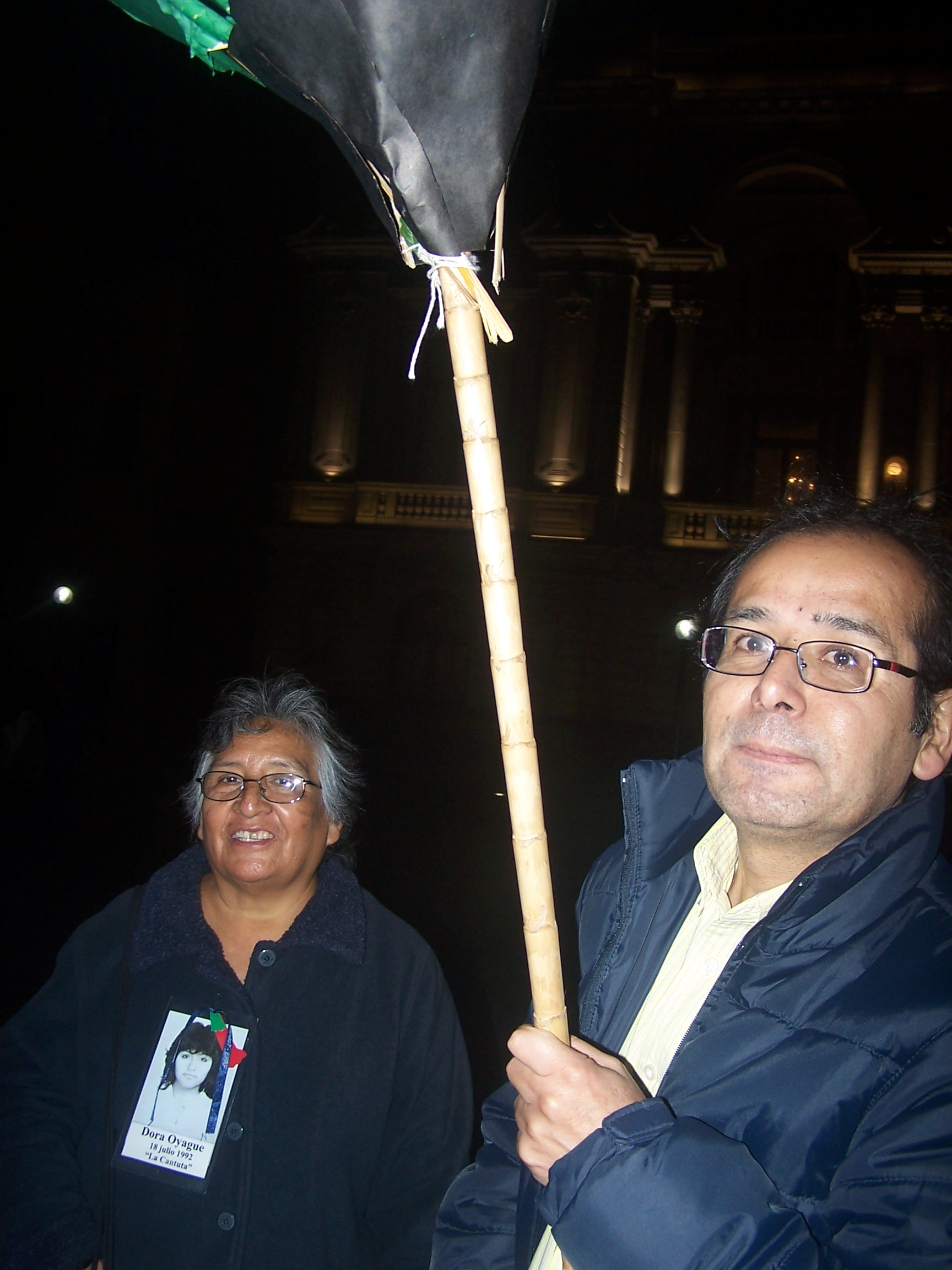 Ronald Gamarra, human right lawyer.